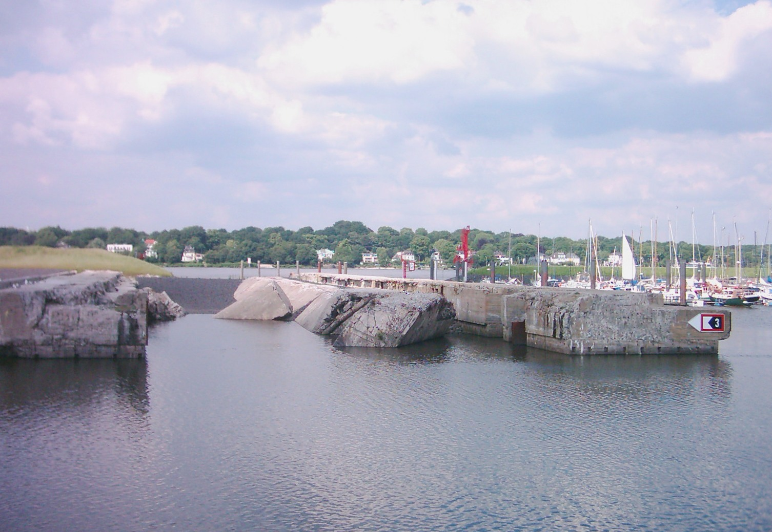 U-Boot-Bunker Finkenwerder, a World War II submarine bunker in Hamburg-Finkenwerder, Germany.